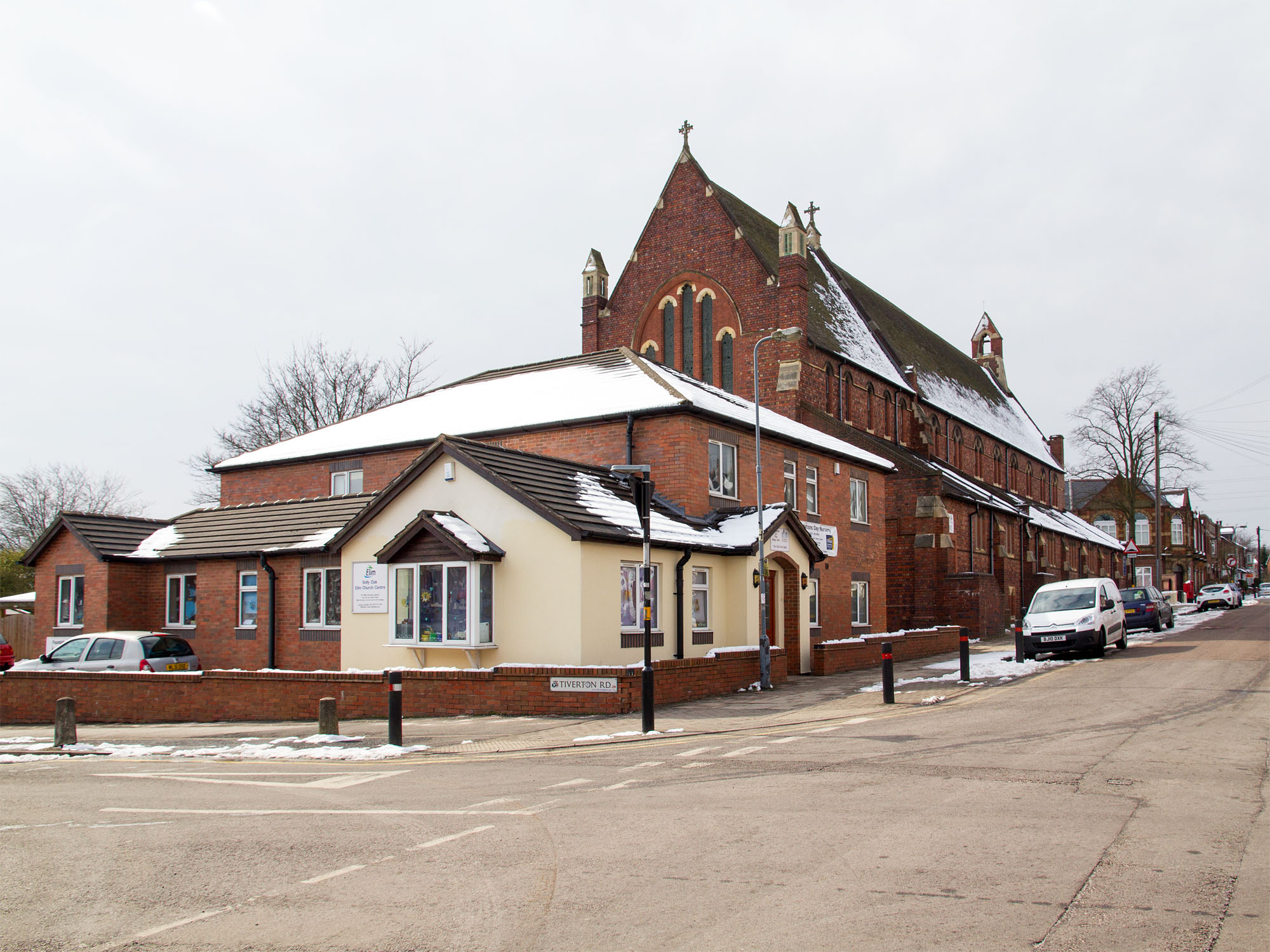 Selly Oak Elim Church, Exeter Road